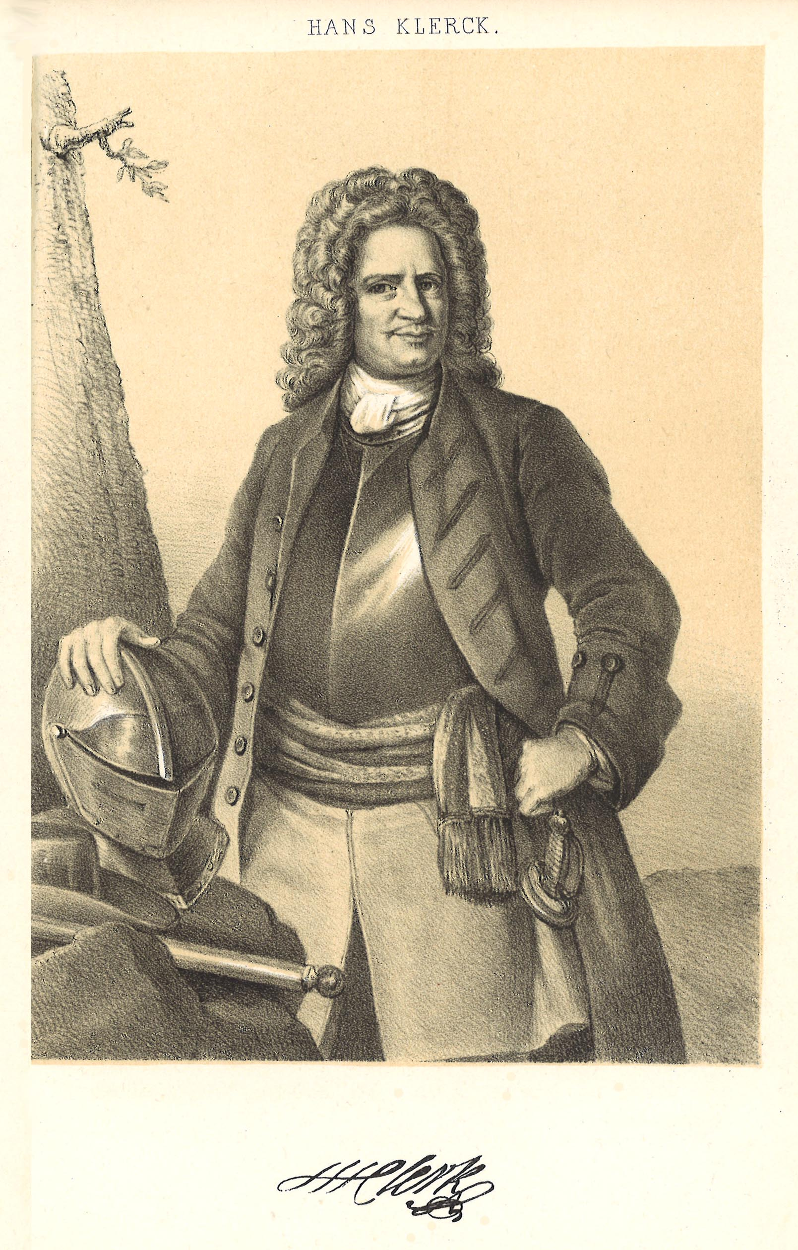 Hans Clerck (1639-1711), Swedish baron, admiral, county governor and "lantmarskalk" (chairman of the estate of nobility).